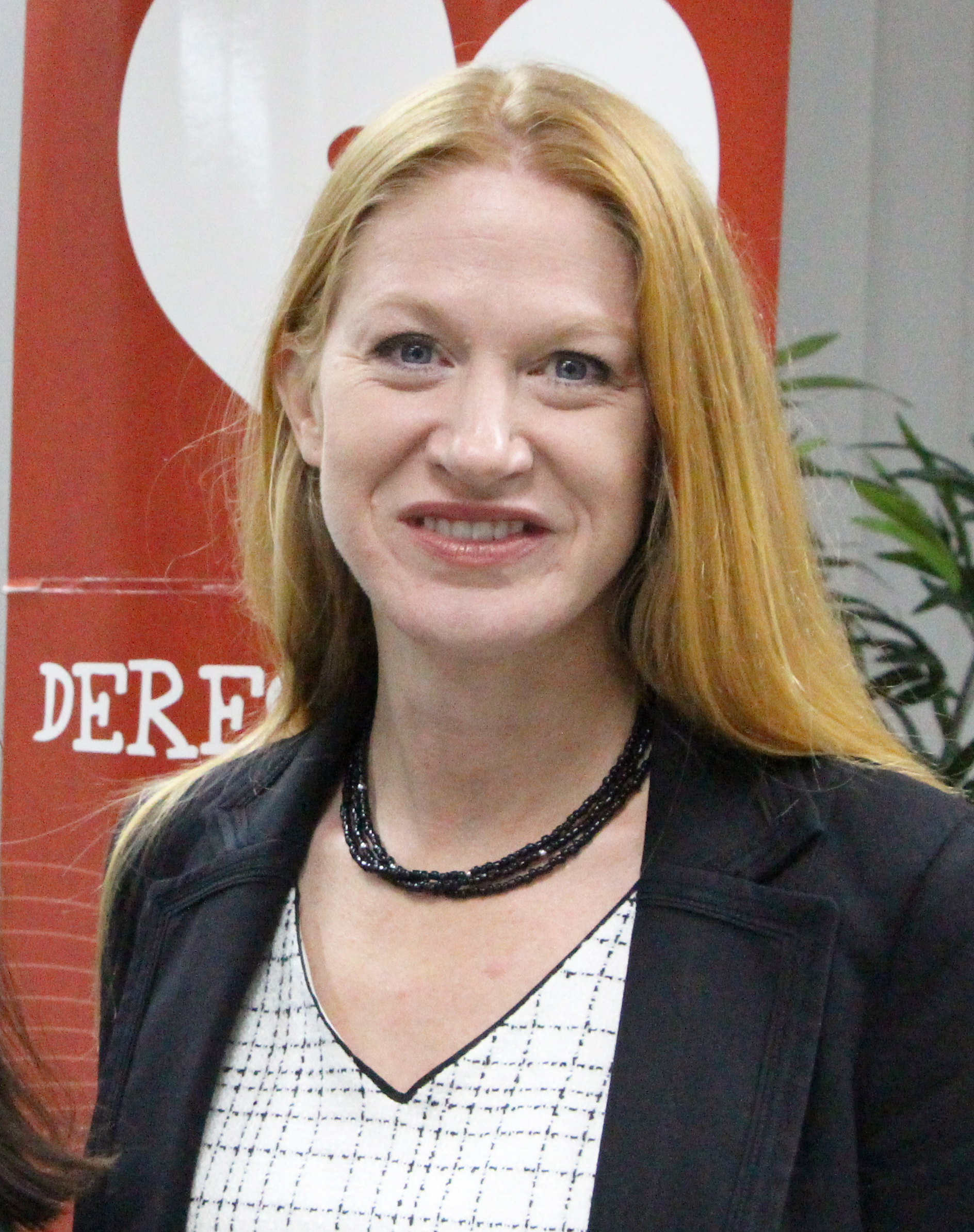 Amy Sinclair in October 2019